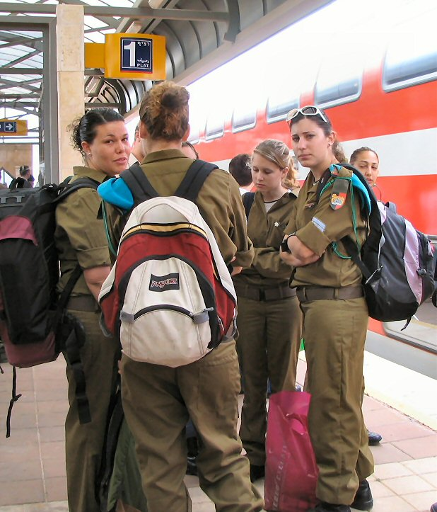 Female soldiers of the Israeli Defense Forces at a train station in Hod Hasharon.